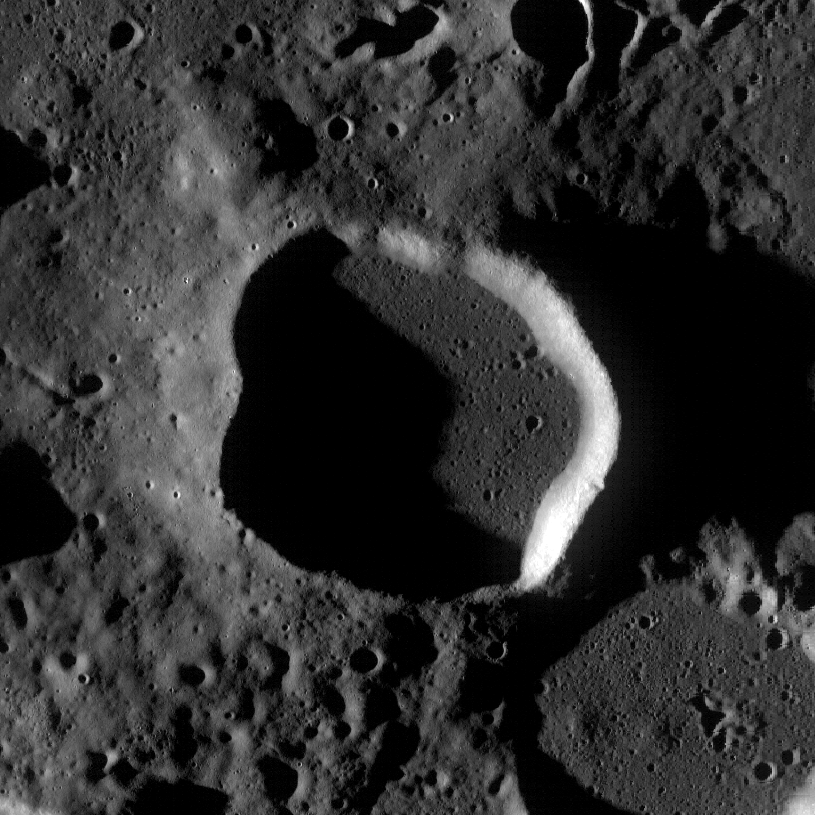 Crater Crozier on the Moon, on the western shore of Mare Fecunditatis. Photo by Lunar Reconnaissance Orbiter, made with Wide Angle Camera on 3 January 2010 from altitude 40 km. Sun elevation is 4.2°. Size of the photo is 50×50 km, north is up.